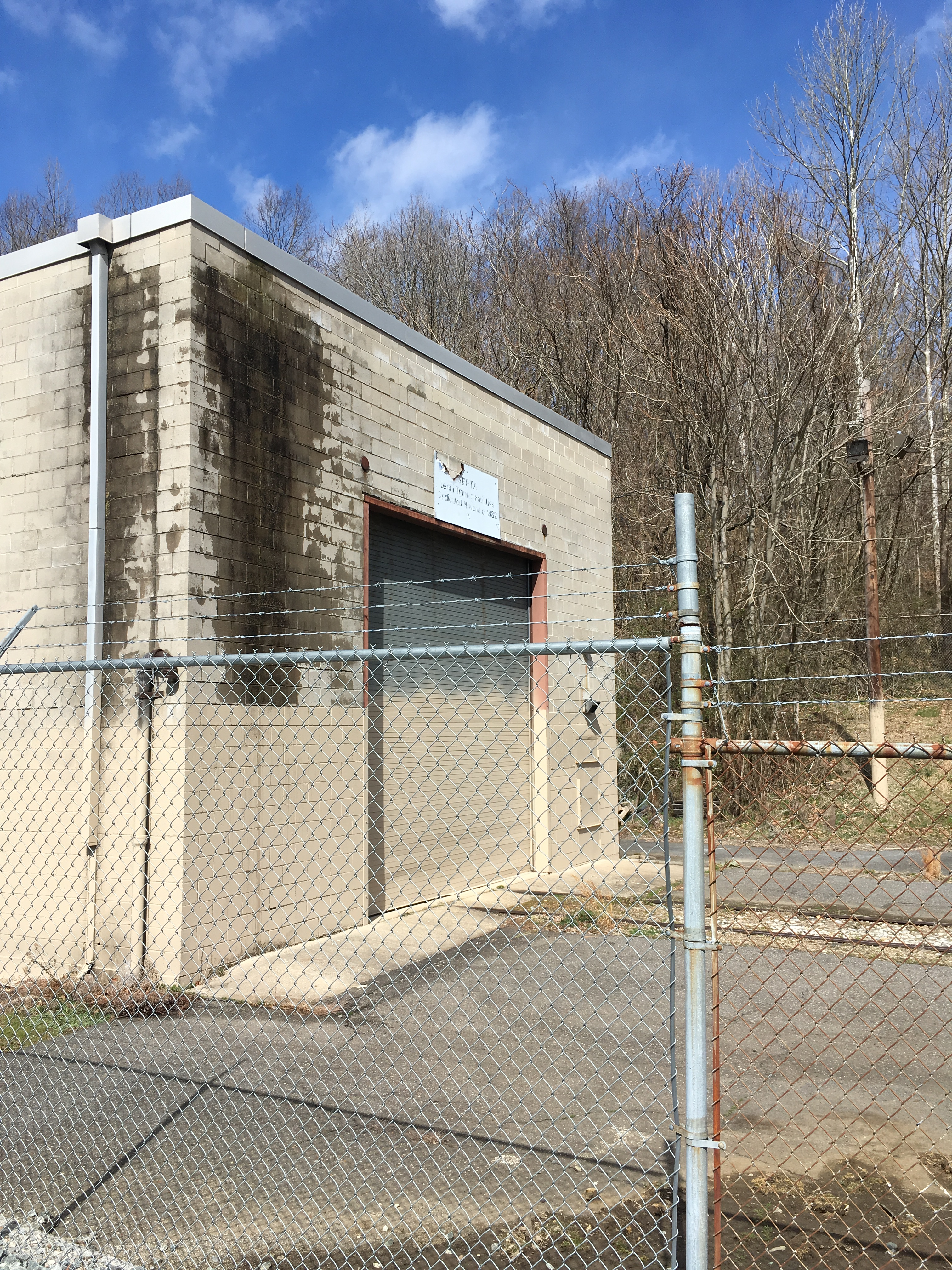 Lenni Training Facilities in 2017